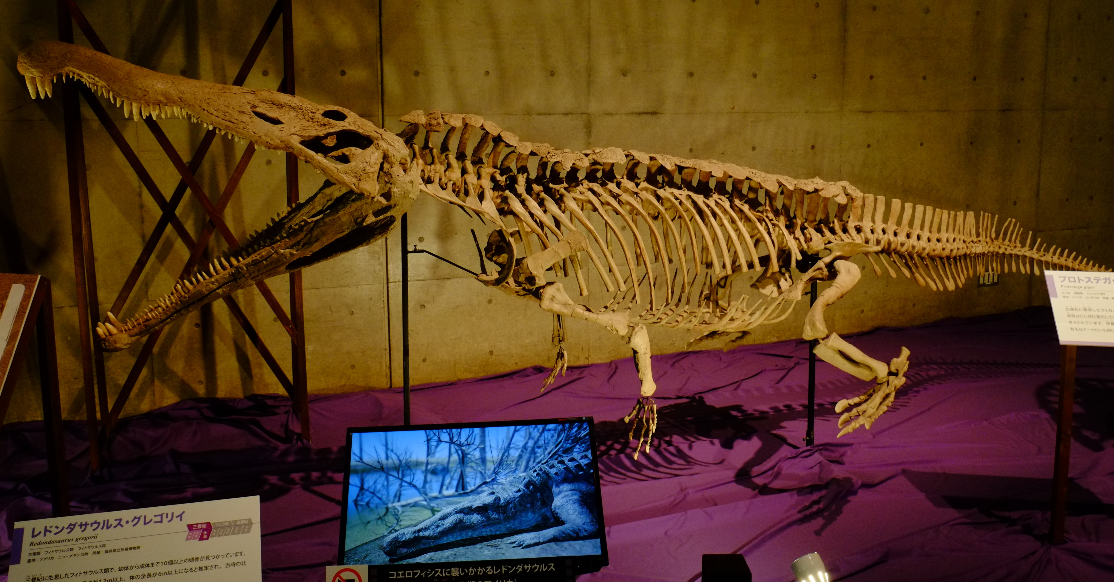 Skeleton of the phytosaur Redondasaurus